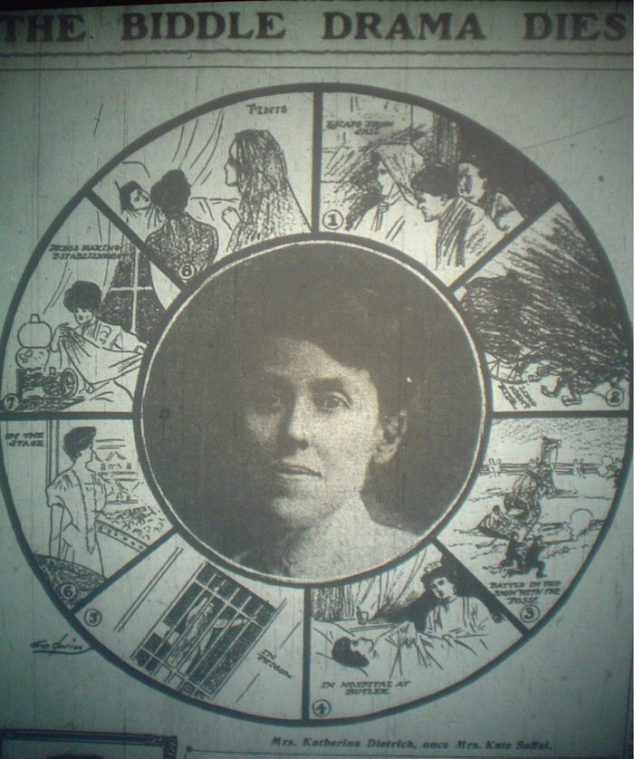 Newspaper report appearing in the Pittsburgh Dispatch the day after the death of Kate Soffel